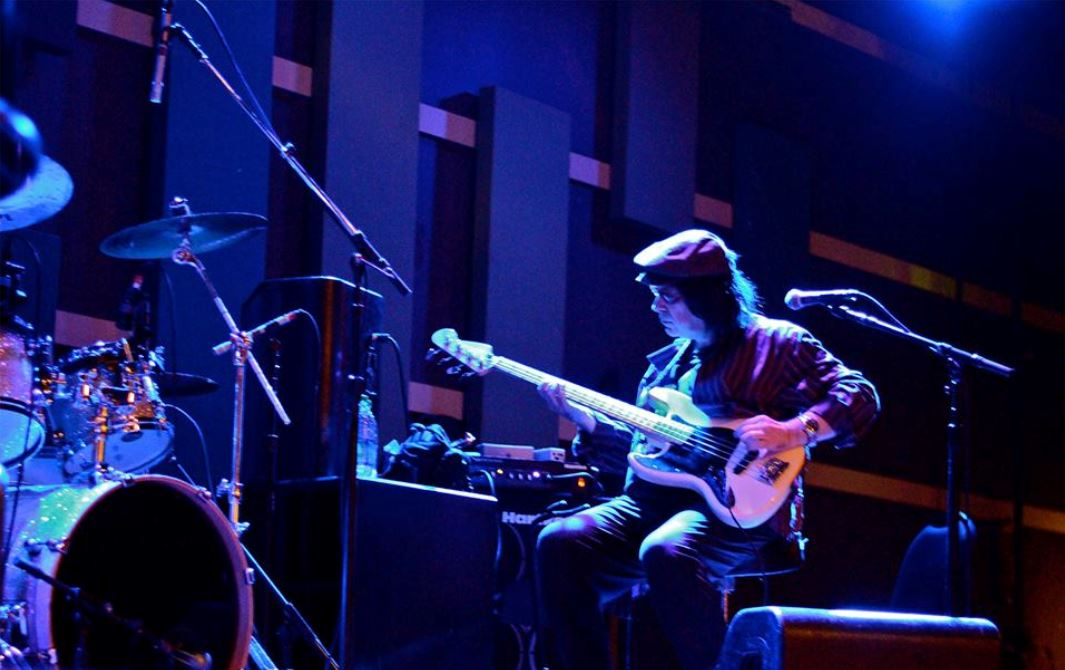 Larry Russell, bassist in Billy Joel's first touring band as a solo artist, performing at the "Long Long Time" re-creation of Joel's 1972 radio broadcast from Sigma Sound Studios. This photo was taken at the World Café Live in Philadelphia, Pennsylvania, by journalist Angela Cave.